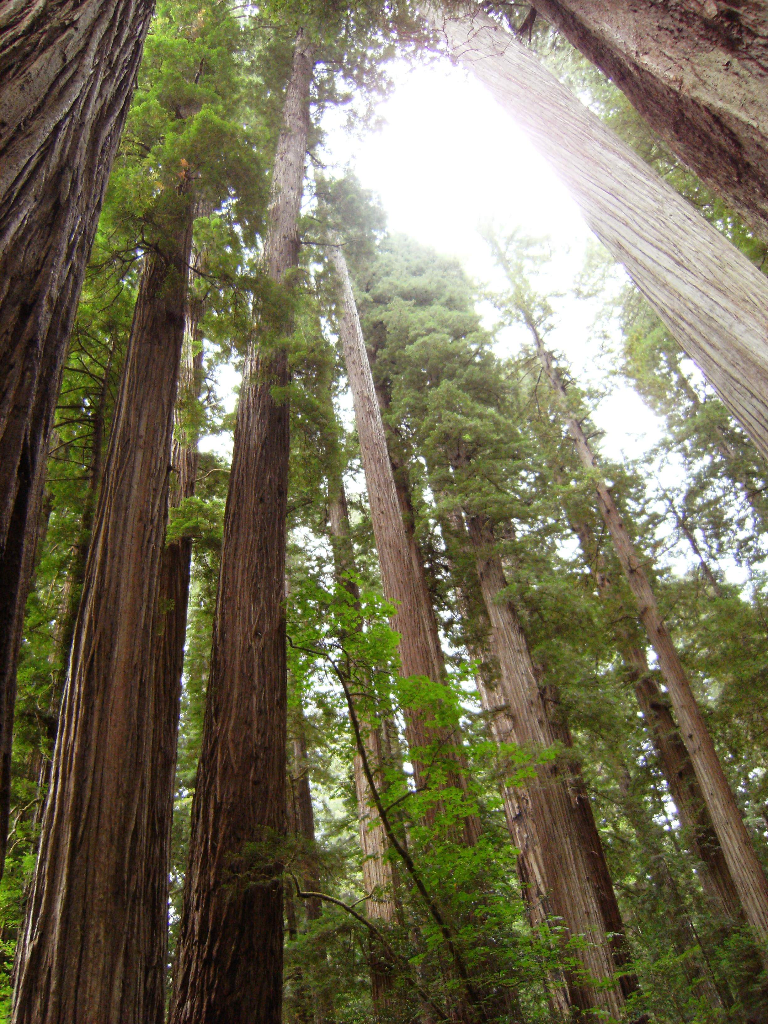 Redwood National Park